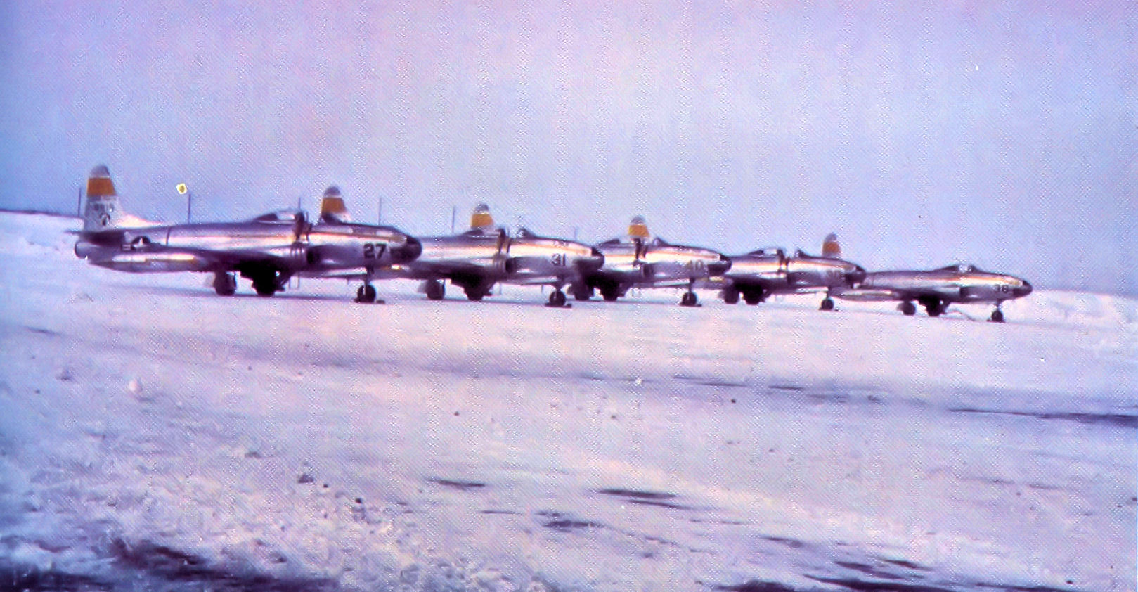 41st Fighter-Interceptor Squadron - F-80s - Johnson Air Base - (Deployed at Misawa AB, Japan), January 1951